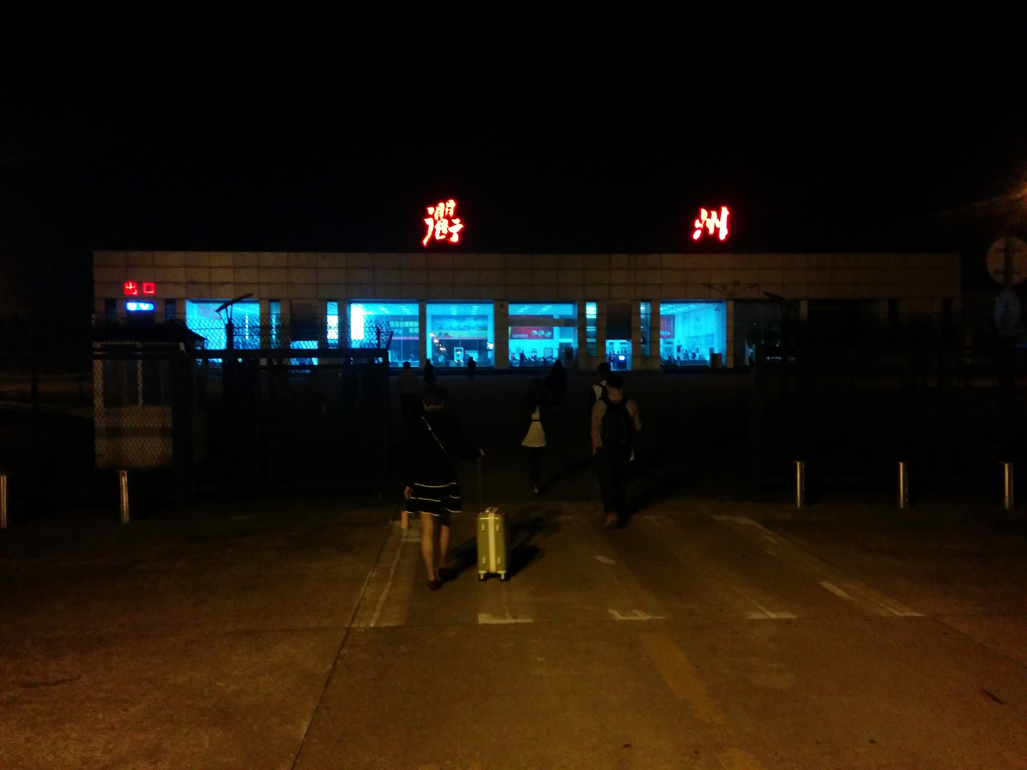 The terminal building at Quzhou Airport is separated from the aircraft bays by a lake, crossed by a causeway.